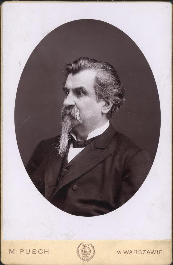 Photo of V. D. Lambl during his years in Warsaw.